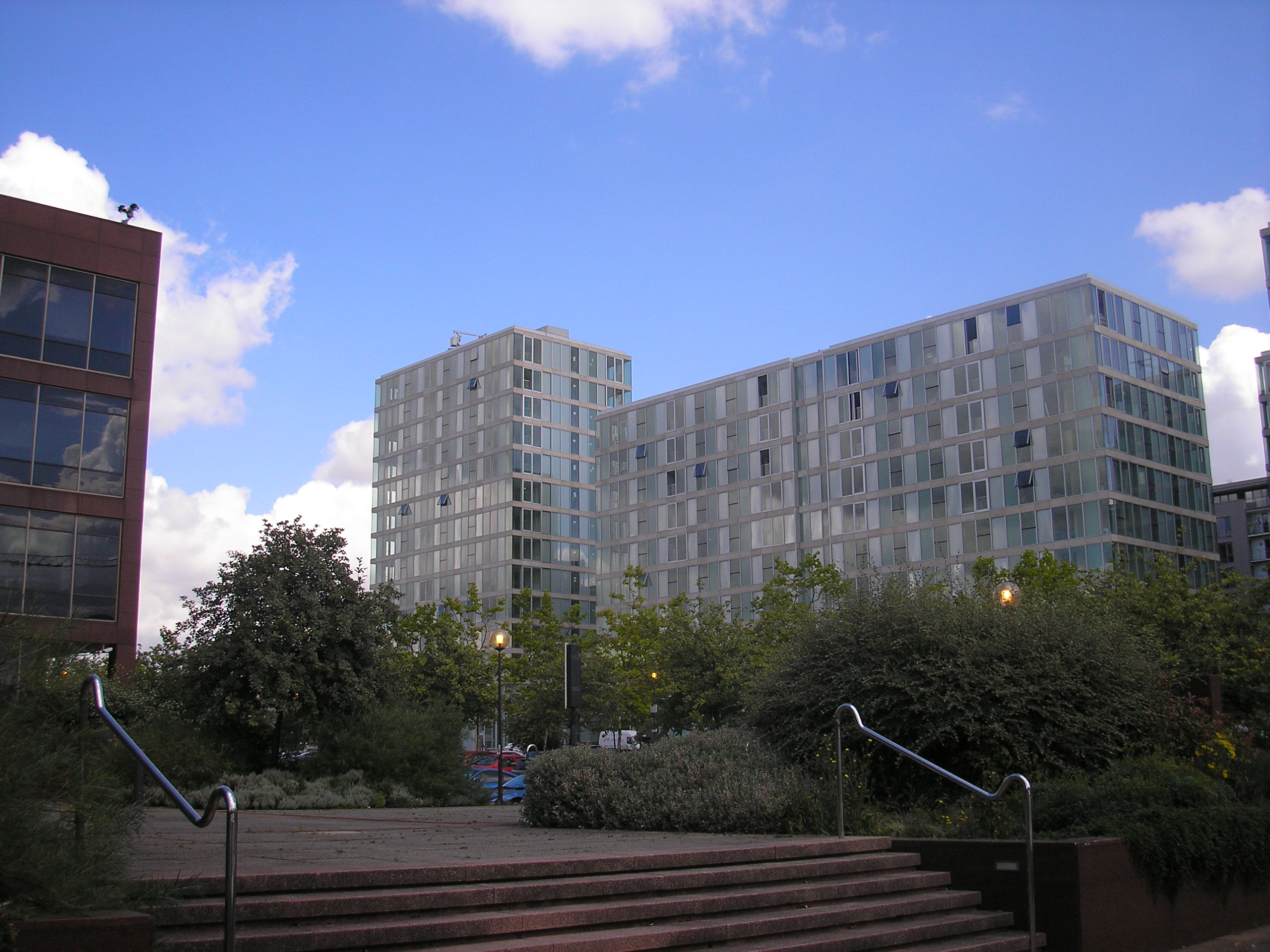 Two of the towers of the 14-storey hub:mk development in Central Milton Keynes.